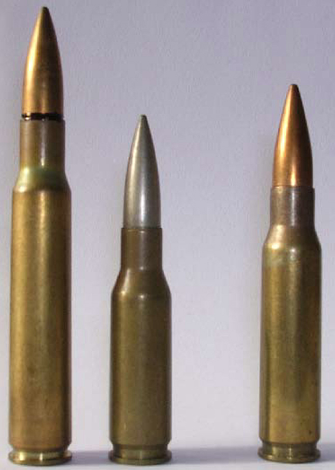 From left to right: .30-06 Springfield, .280 British (7.1×43mm) and 7.62×51 mm NATO cartridges.